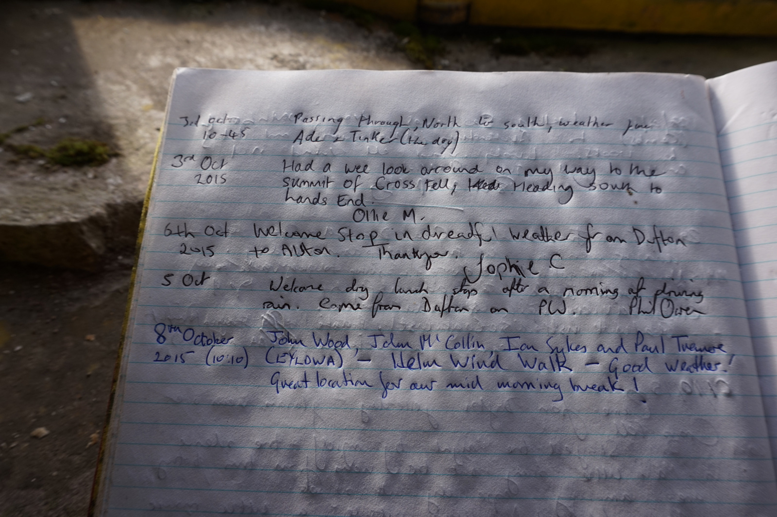 Signing the visitors book at Greg's Hut, Cross Fell